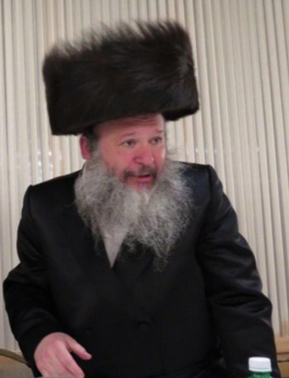 Picture of Harav Yisroel Dovid Harfenes at his grandsons wedding